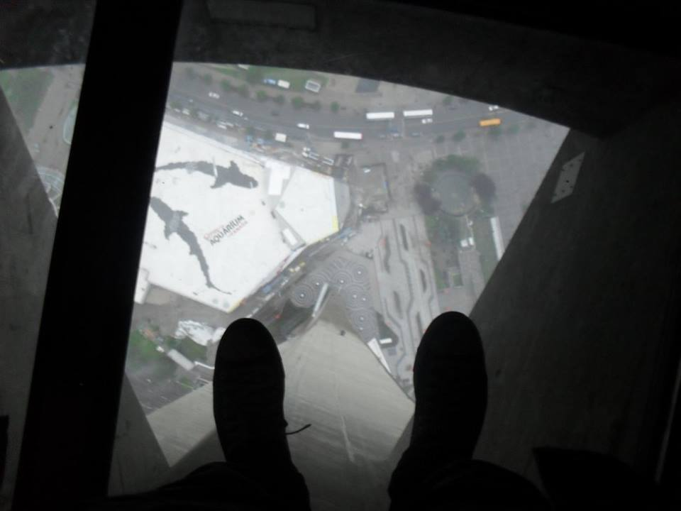 Walking on the Glass Floor of the CN Tower.